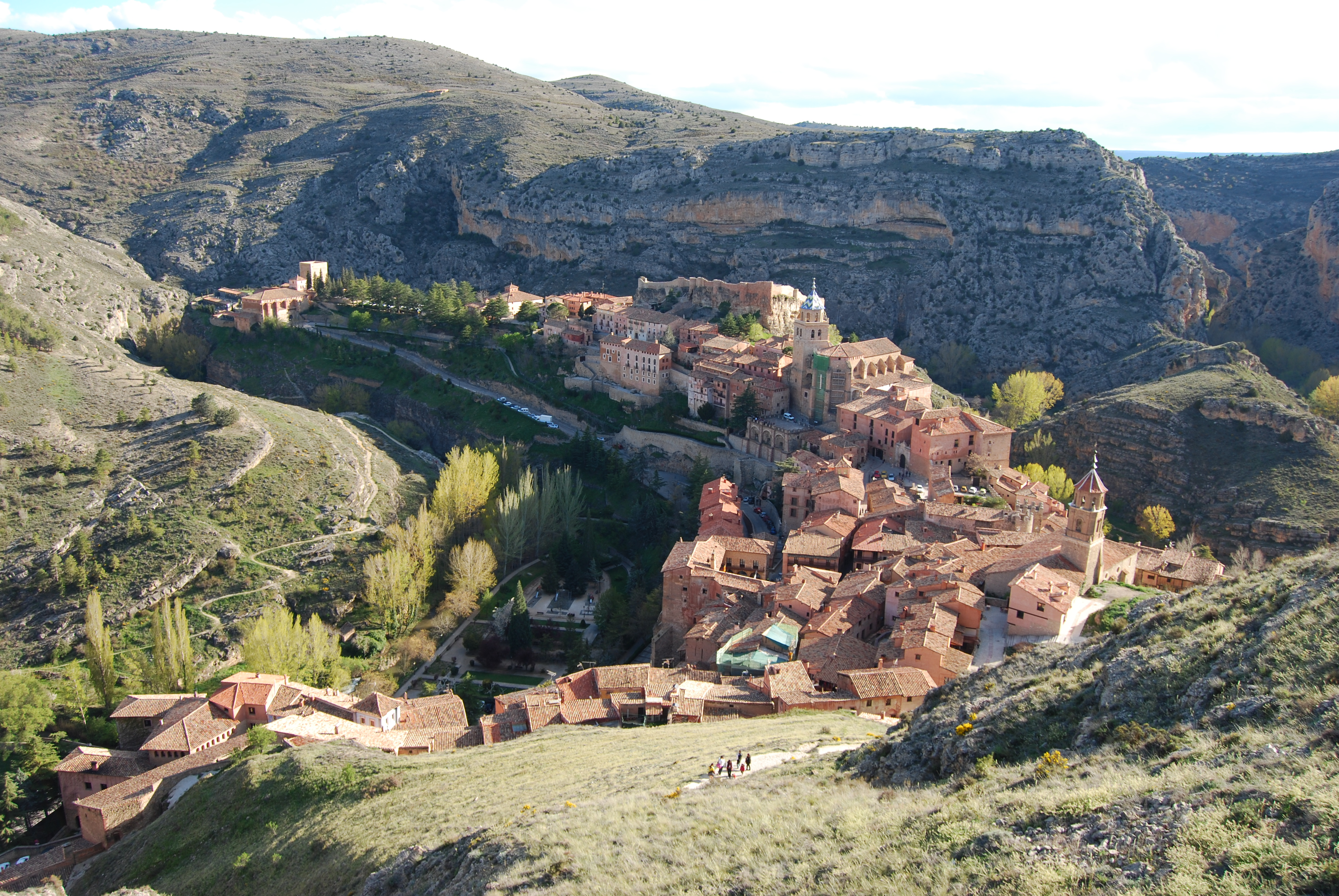 Albarracín, viewed from Torre del Andador